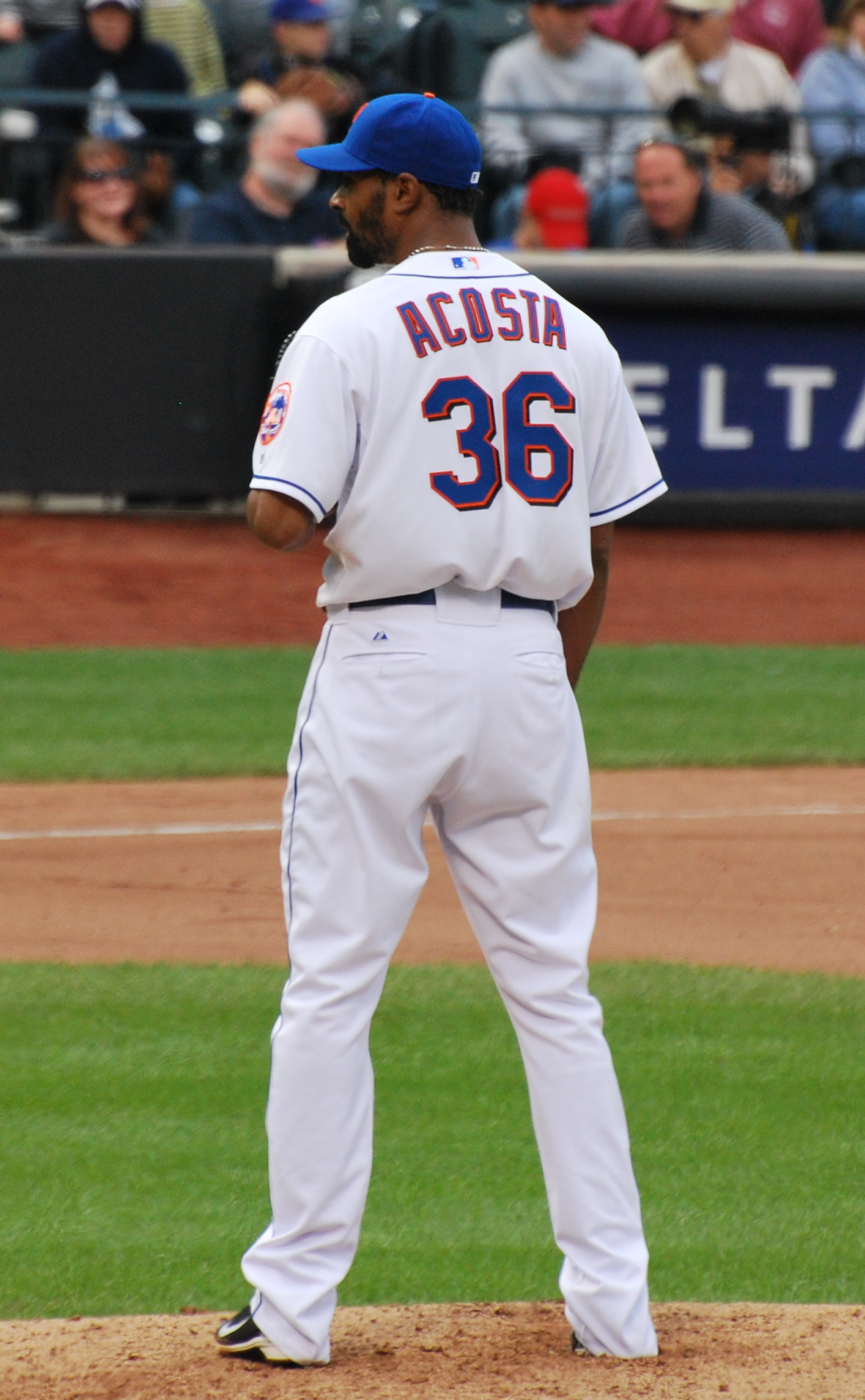 Manny Acosta